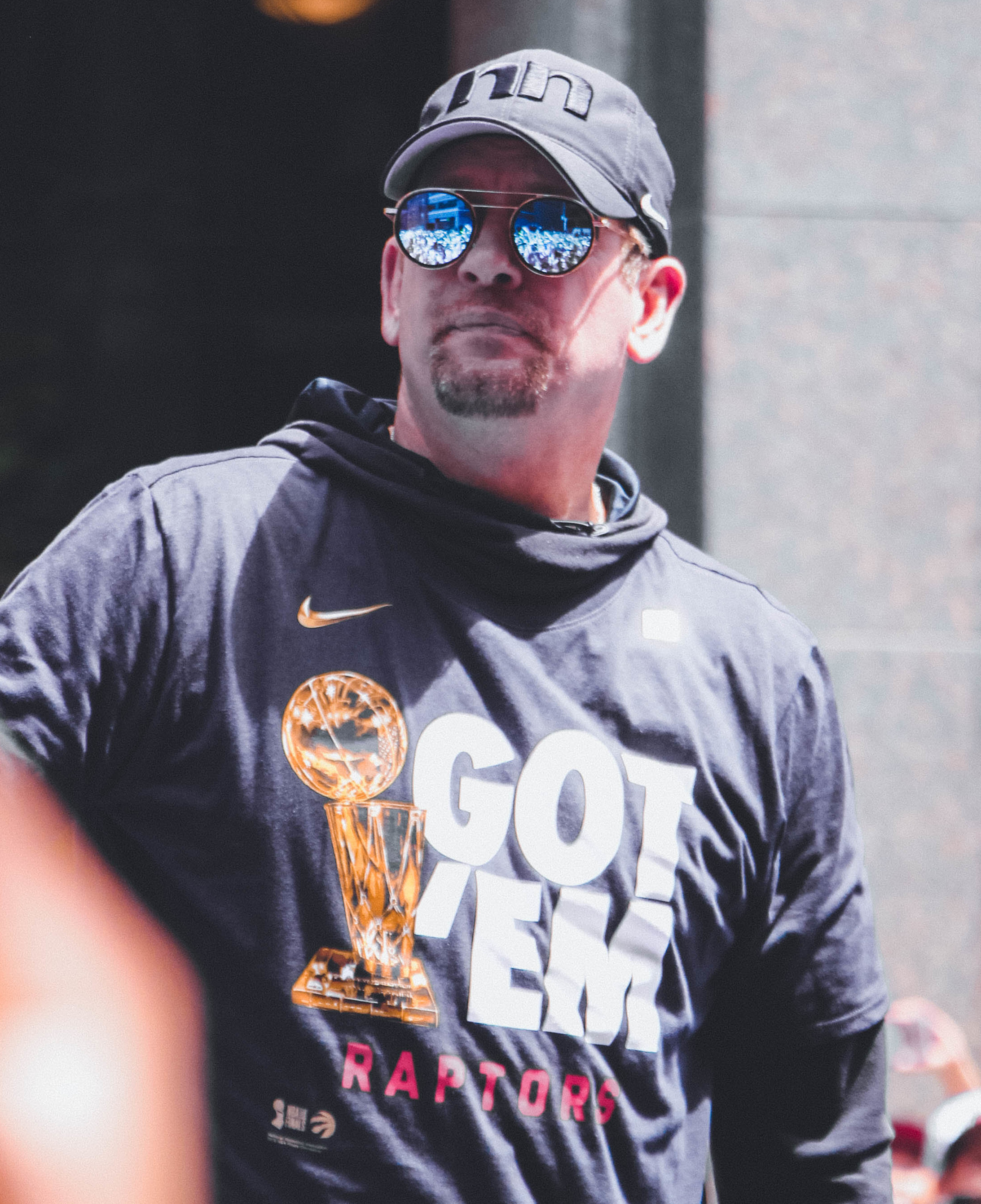 Nick Nurse at Toronto Raptors championship parade.